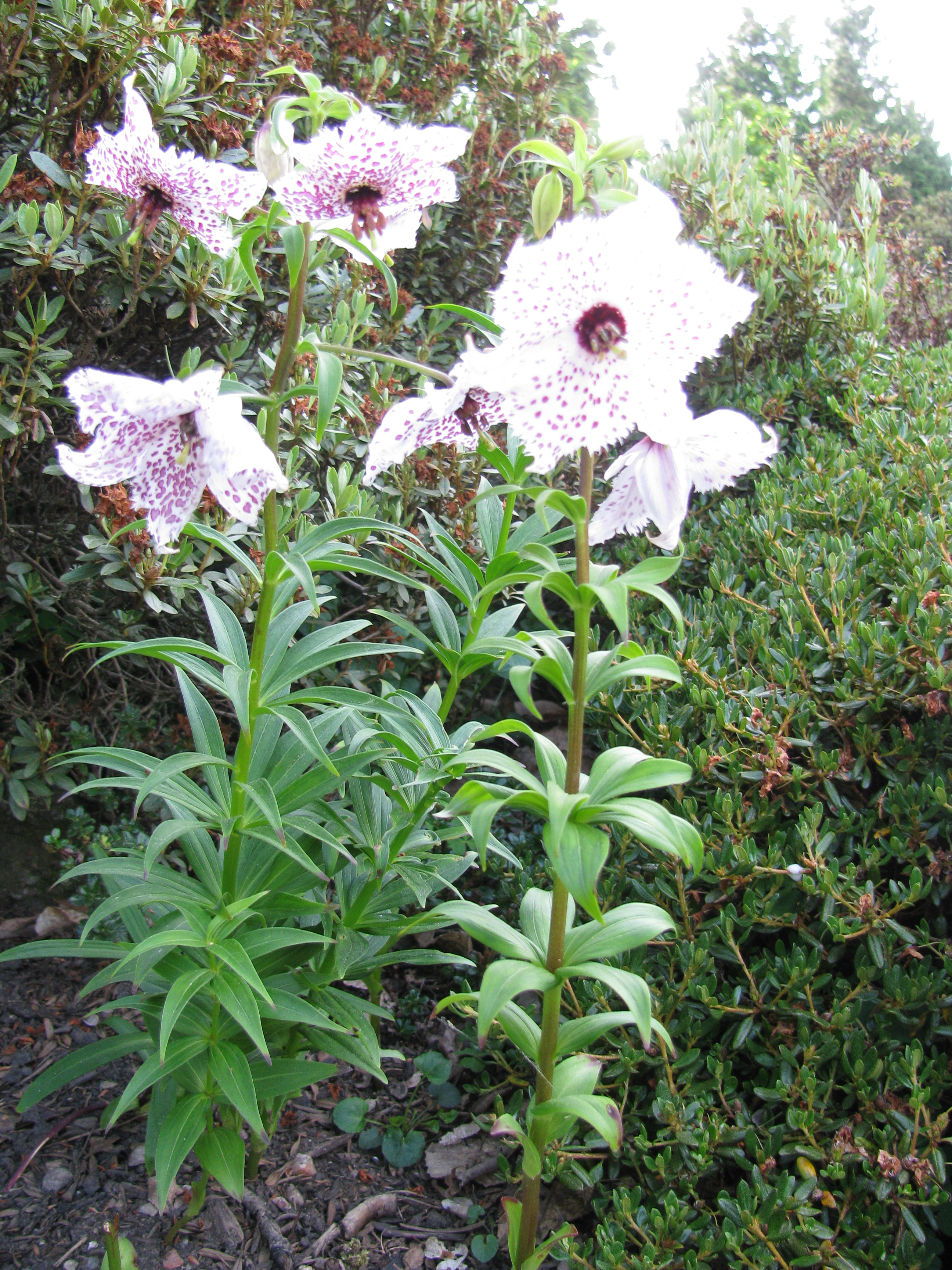 A flowering Nomocharis pardanthina.